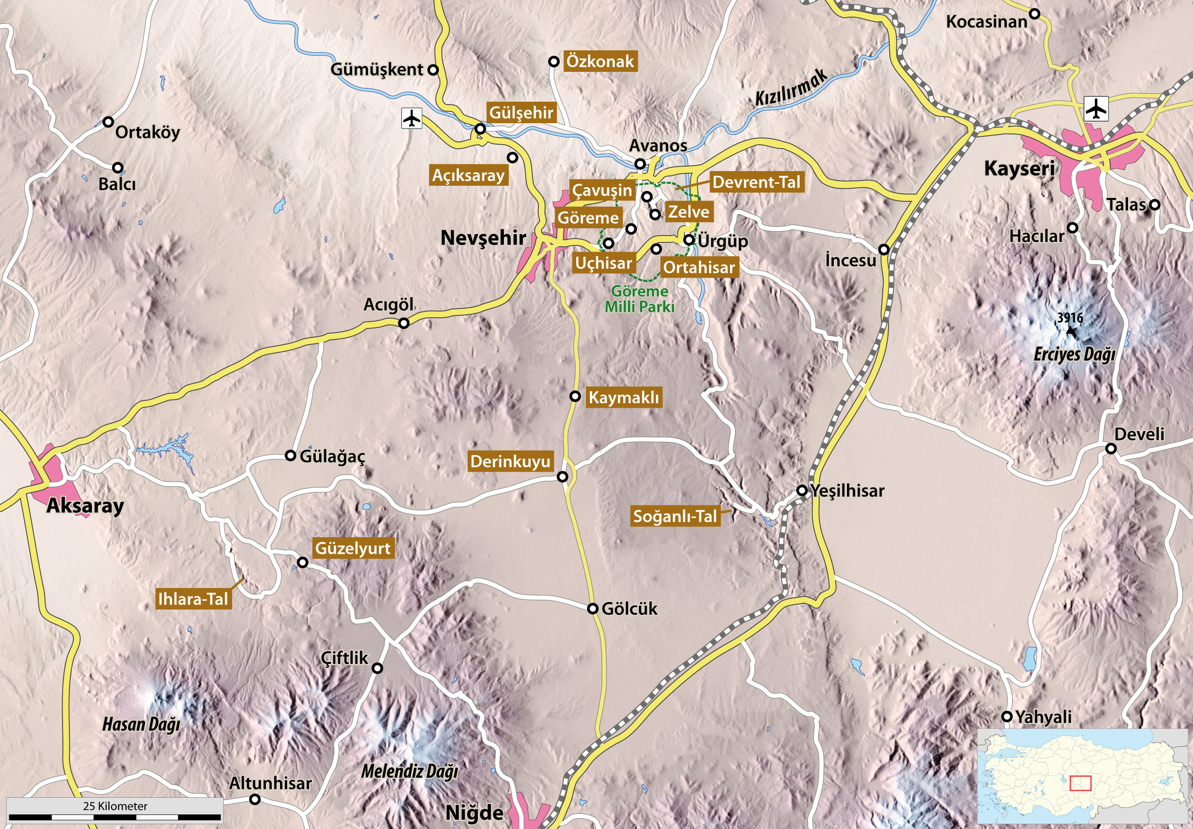 Map of Cappadocia